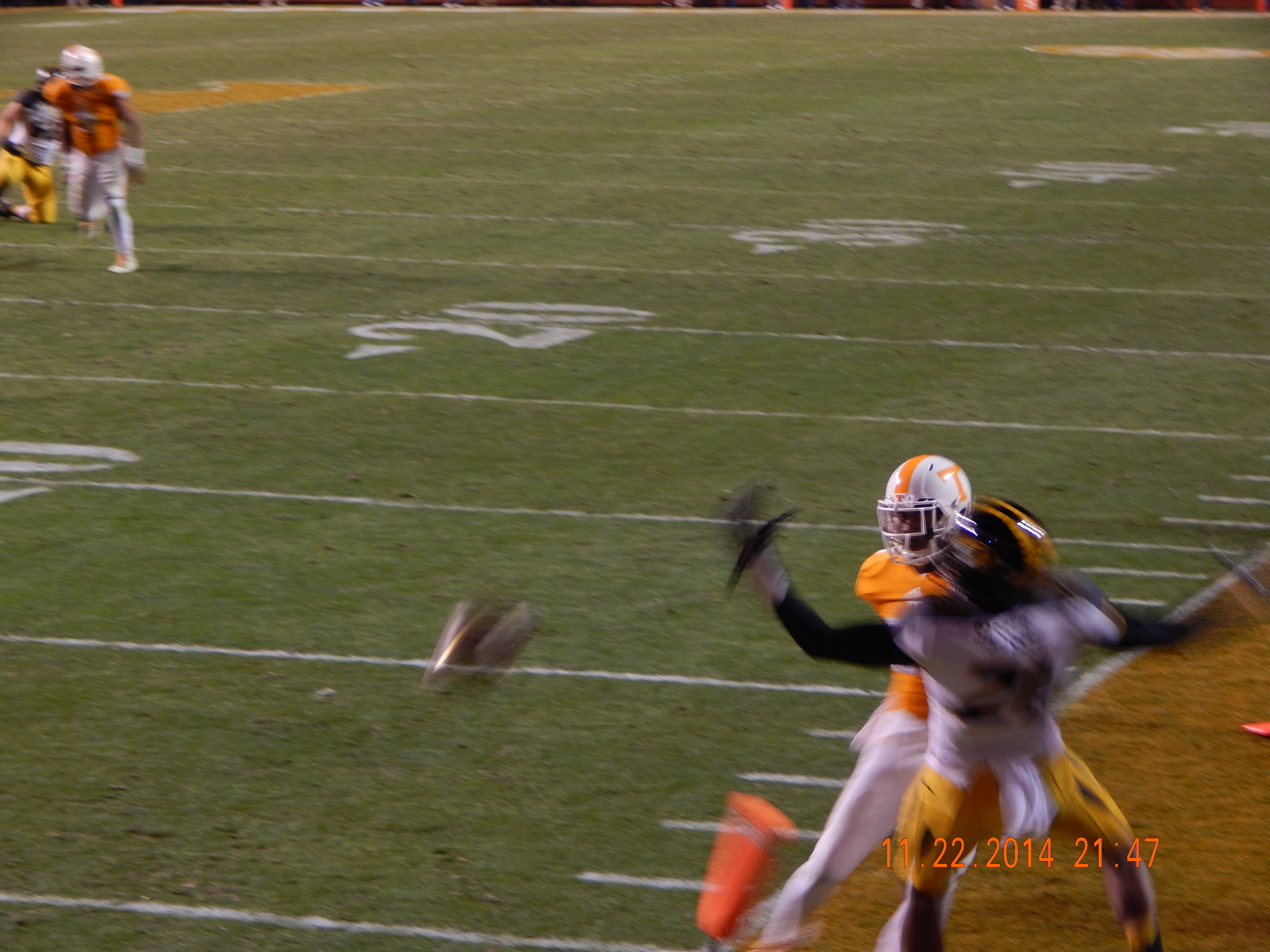 Missouri Tigers vs. Tennessee Volunteers. Pass for a touchdown broken up in the end zone.